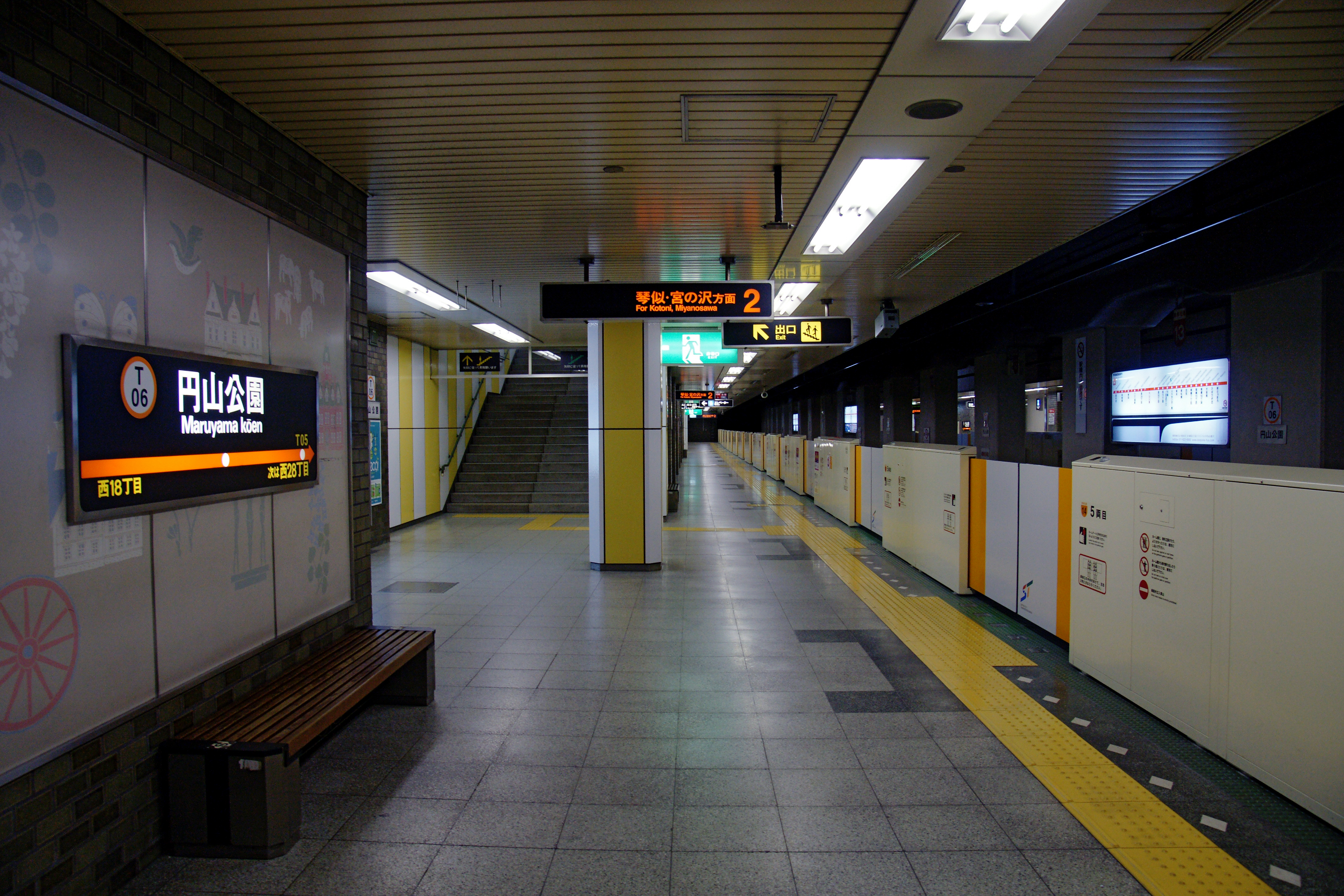 Maruyama koen Station in Sapporo, Hokkaido prefecture, Japan